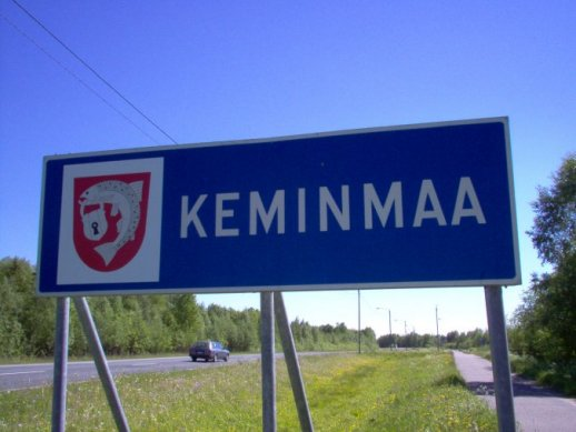 Municipal border sign of Keminmaa, Finland